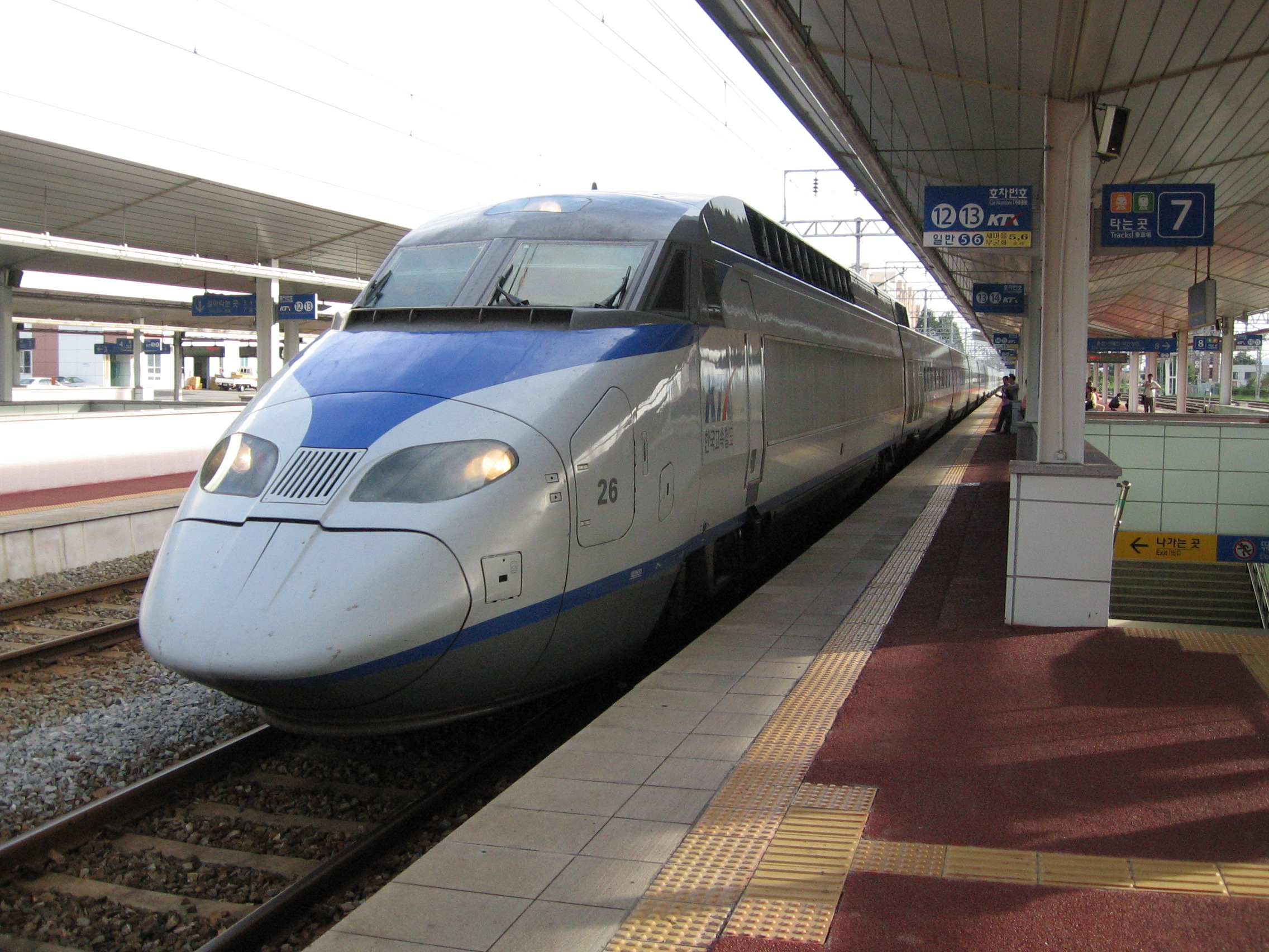 The Korea Train Express in Seongjeongni near Gwangju.